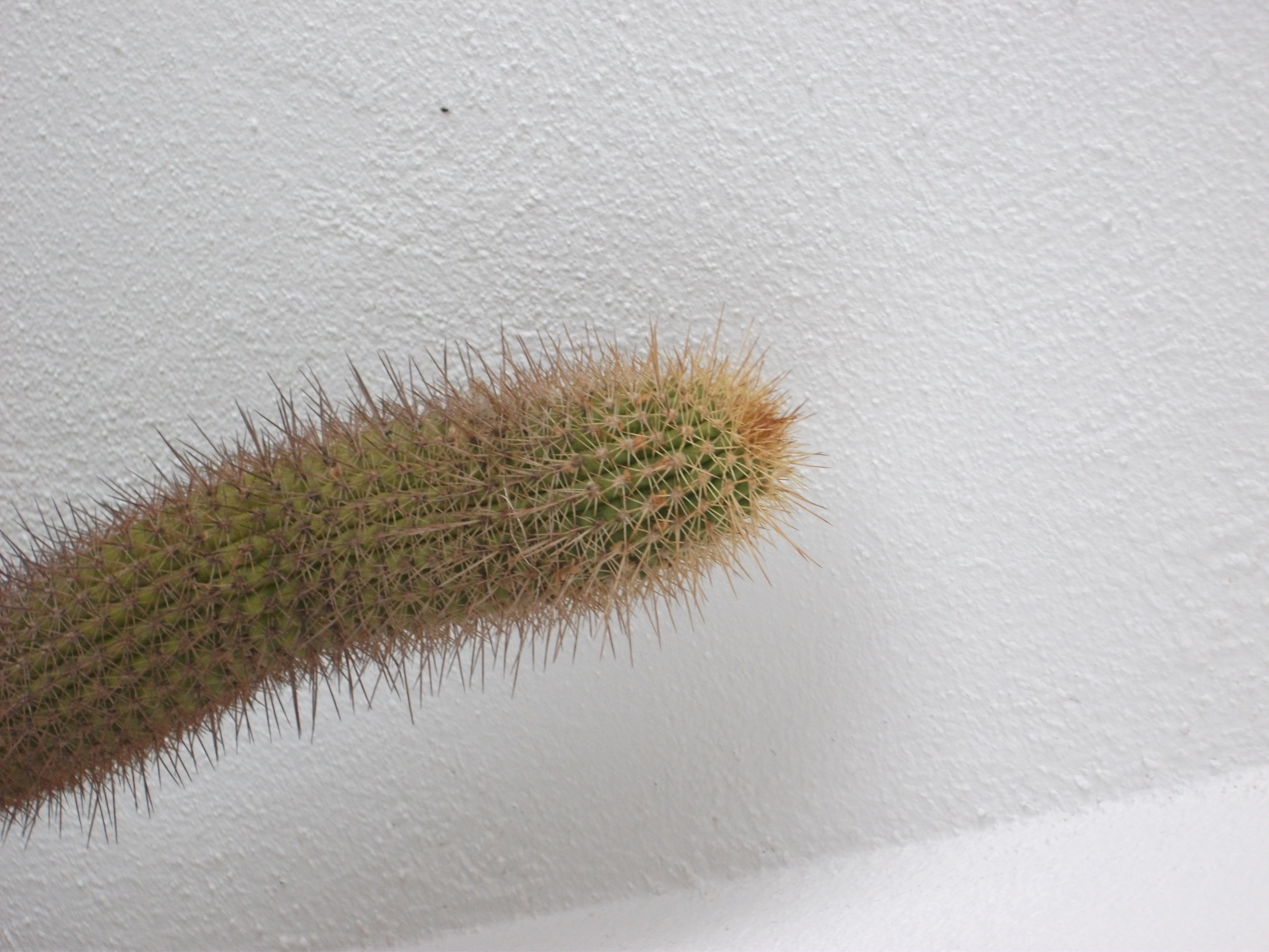 trichocereus spachianus